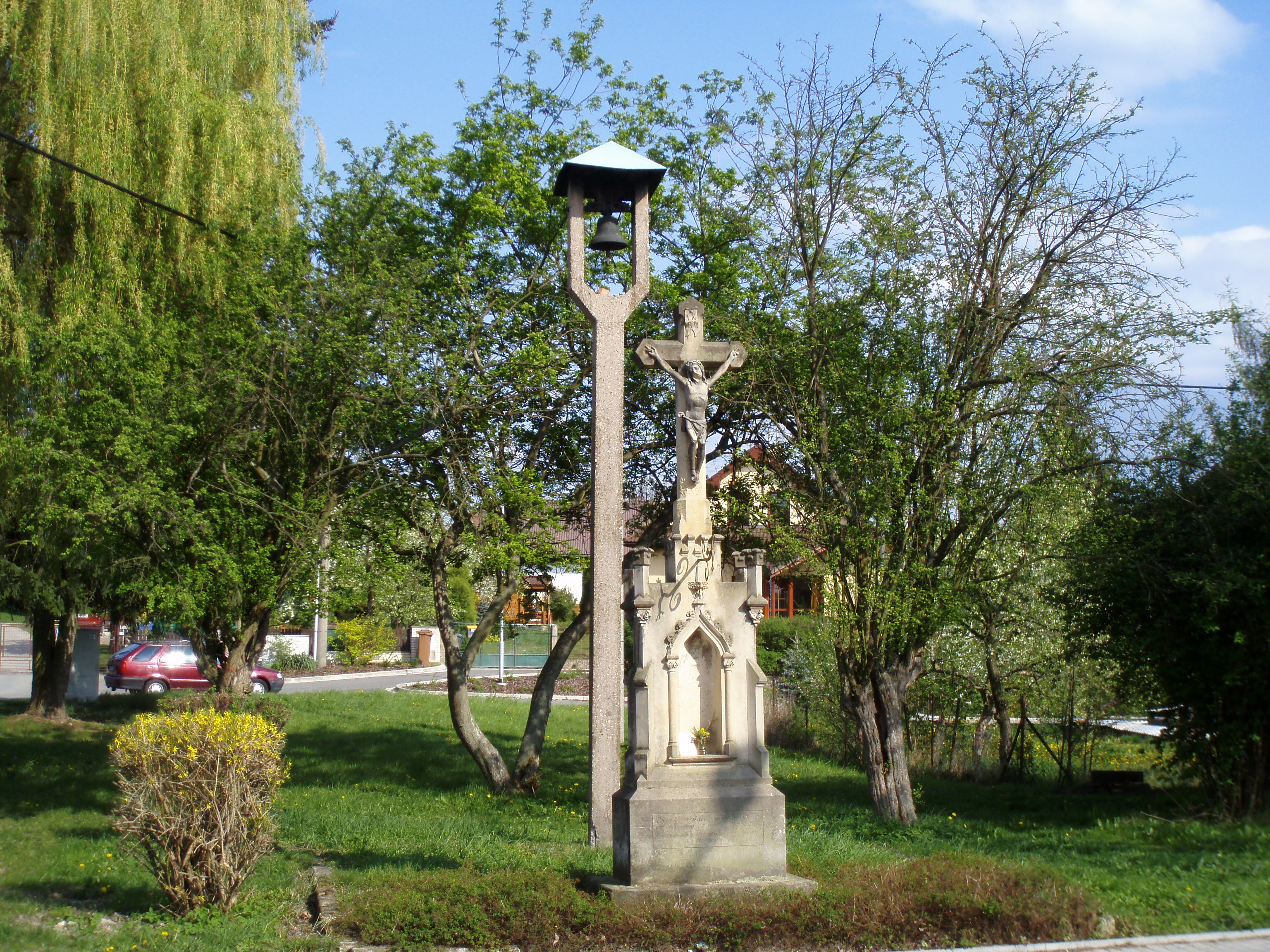 Belfry in Roudnička (Hradec Králové)